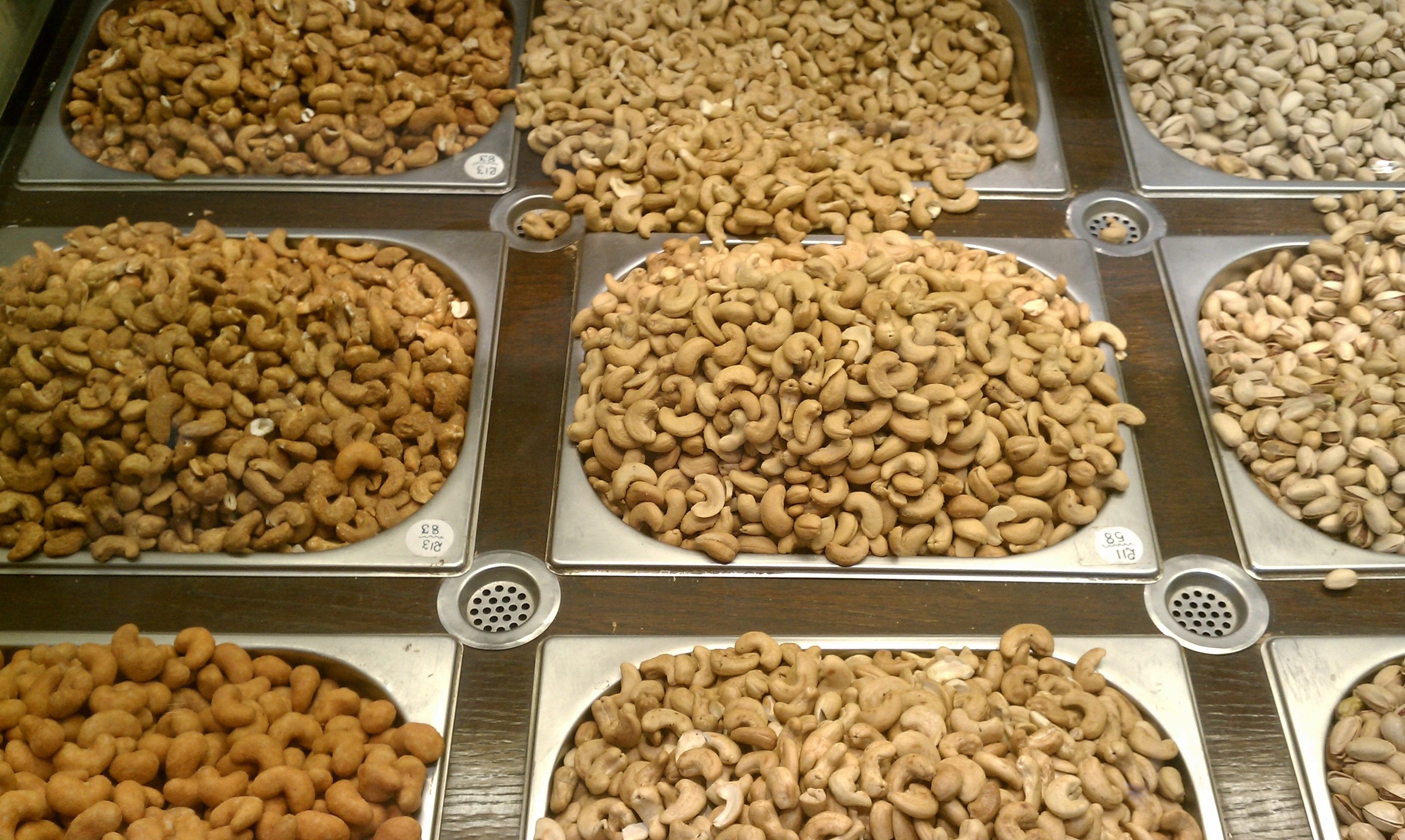 Cashews and pistachios for sale at a Jeddah souk